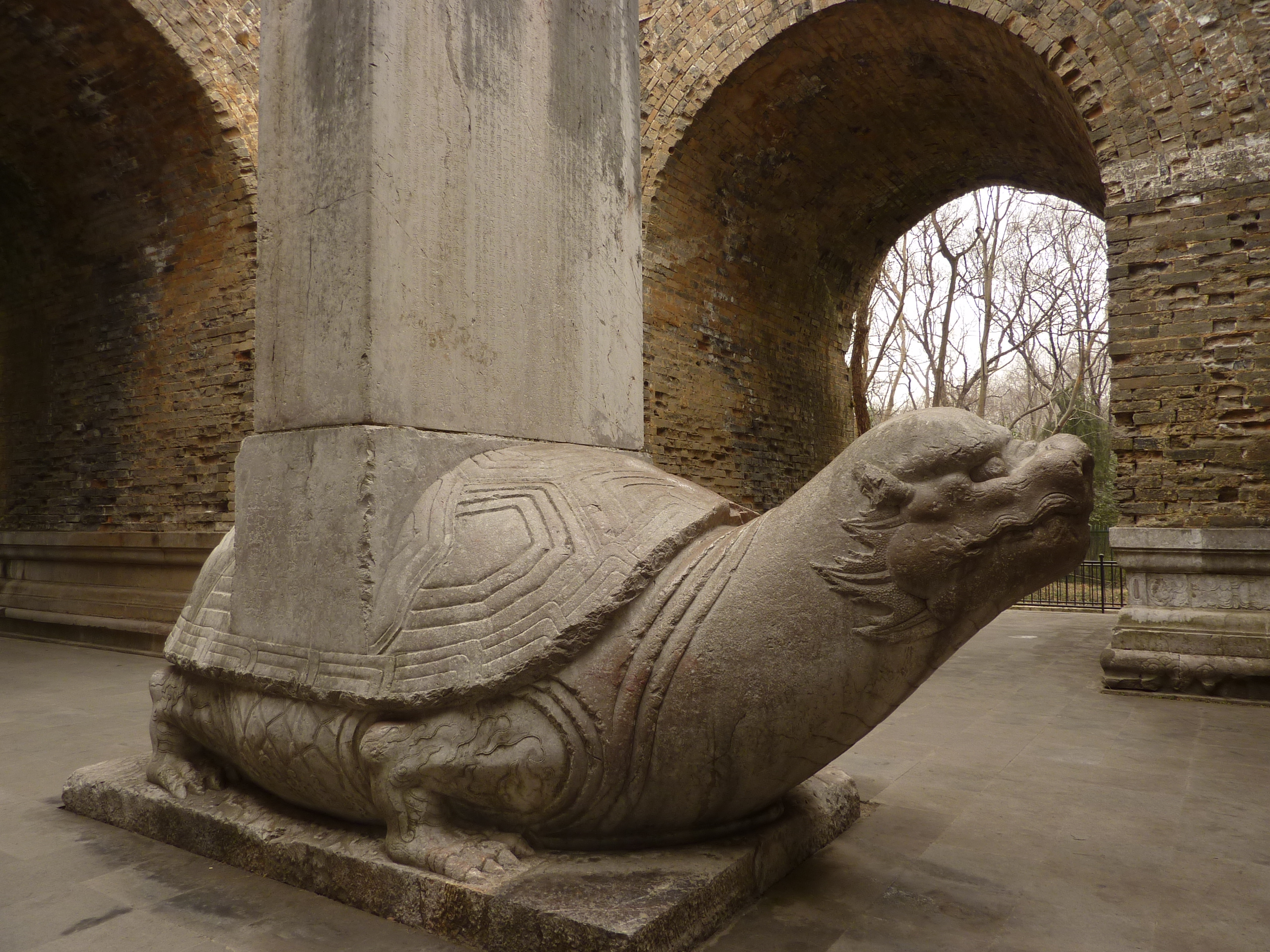 Inside the Sifangcheng Pavilion of Ming Xiaoling. The great bixi tortoise, holding the Shendong Shengde stele honoring of the Hongwu Emperor. Some of the photos are taken from the same point, and are meant to be stitched into a wider-angle ("panoramic") picture with a tool like hugin.